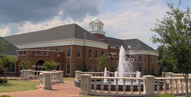 Photograph of Lundy-Fetterman School of Business at Campbell University